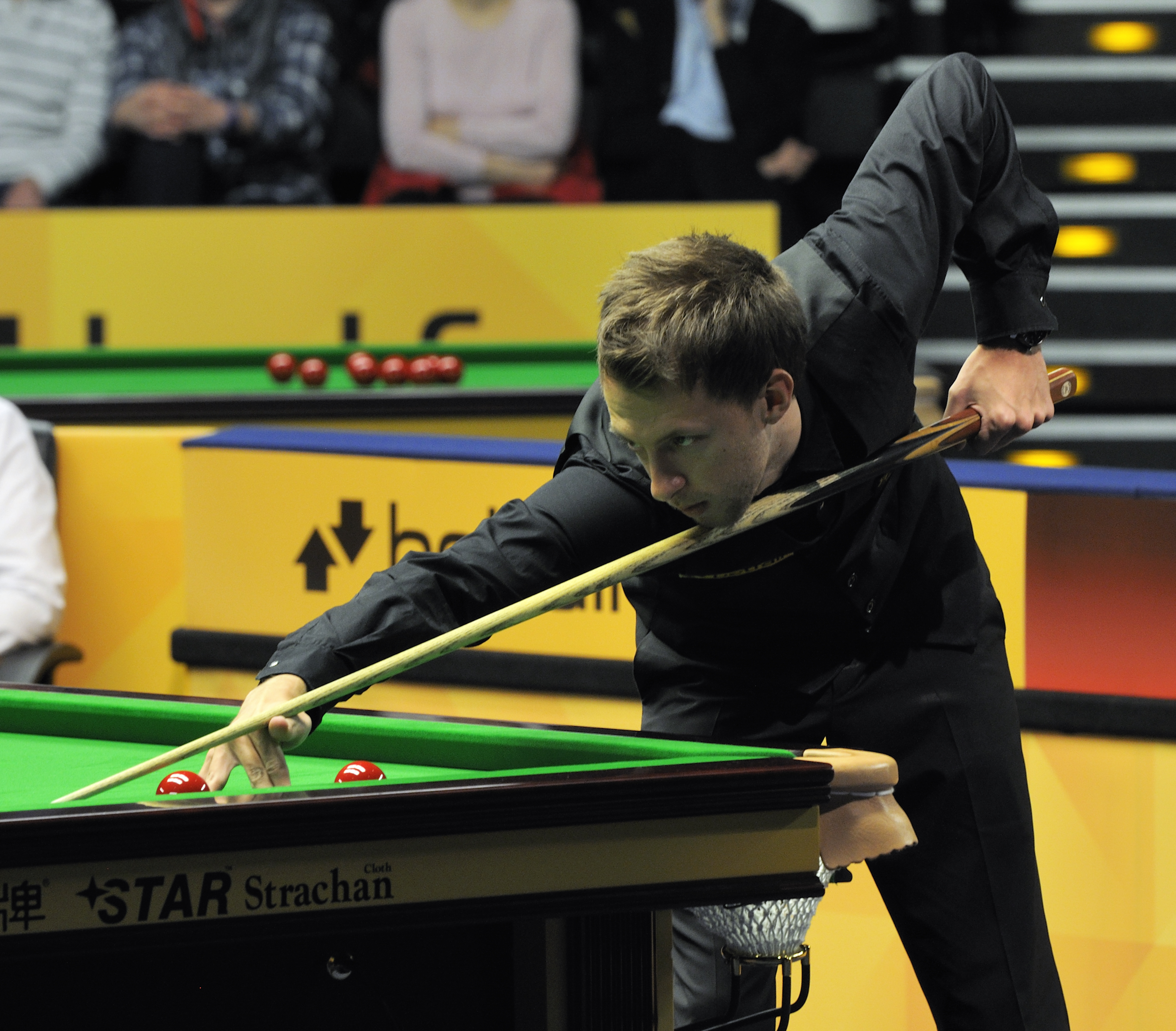 Picture taken in Berlin during the Snooker German Masters in 2013. Judd Trump.